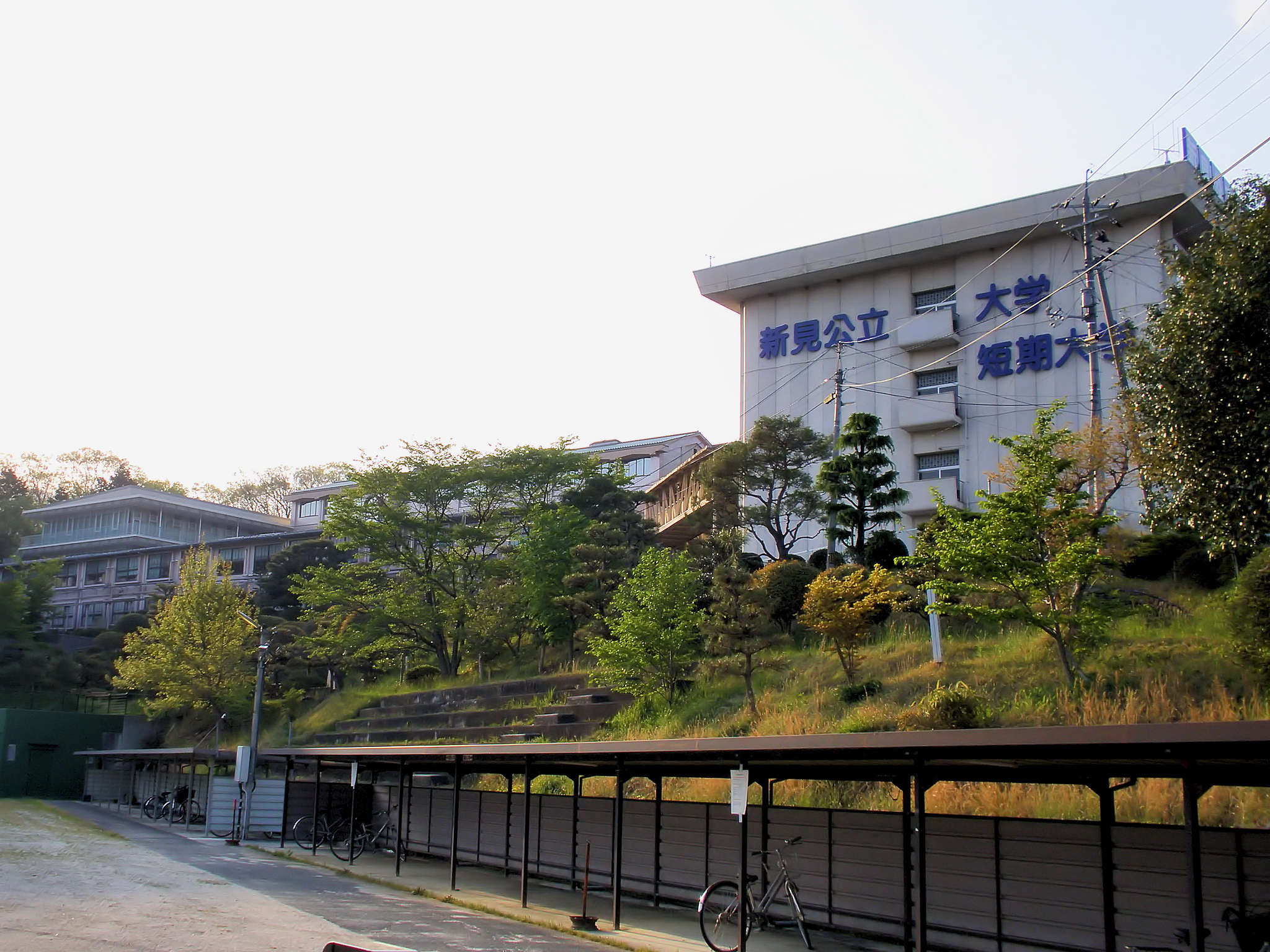 Niimi College, Niimi, Okayama.